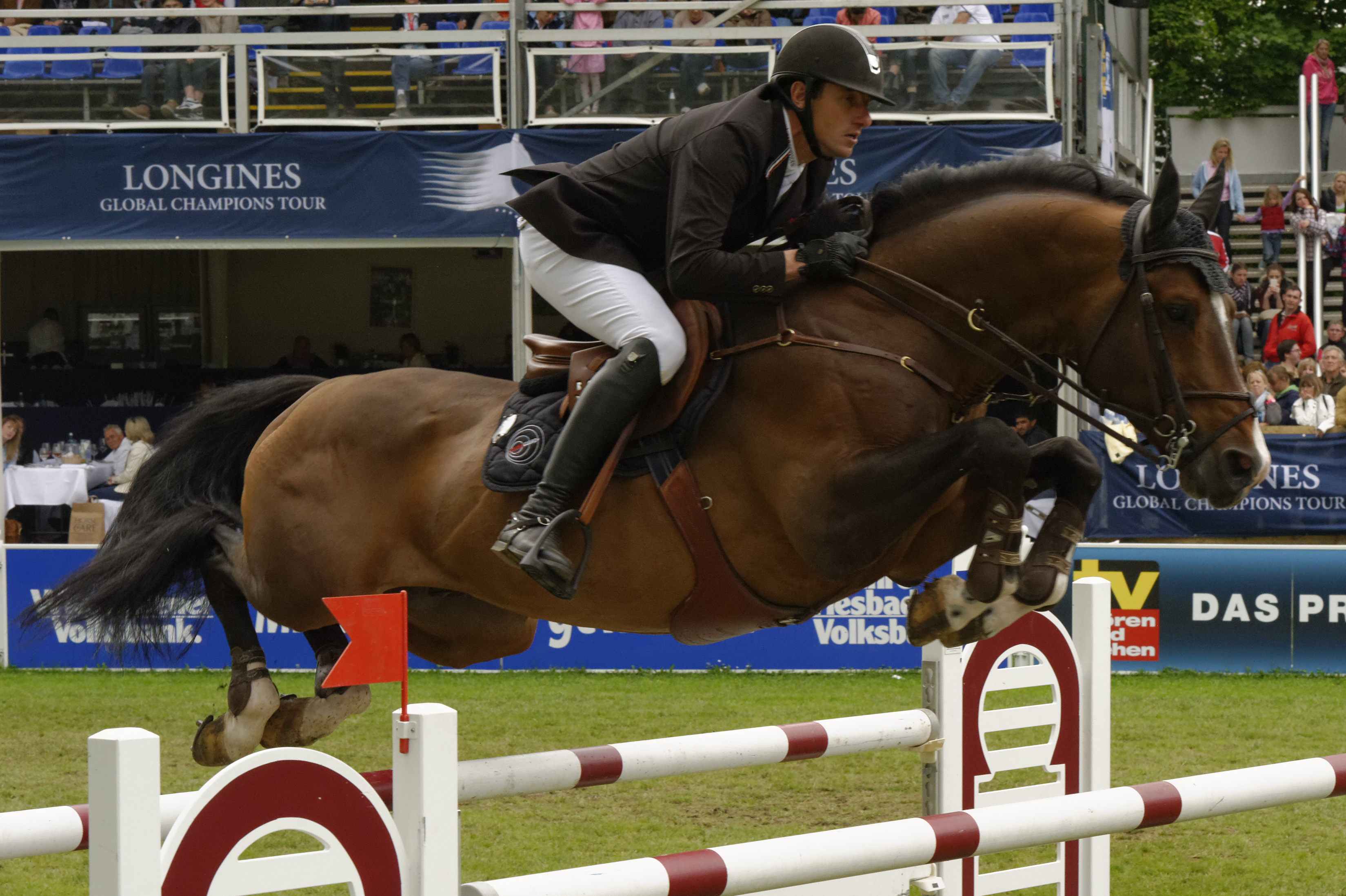 Internationales Pfingstturnier Wiesbaden 2013 The making of this document was supported by the Community-Budget of Wikimedia Germany.